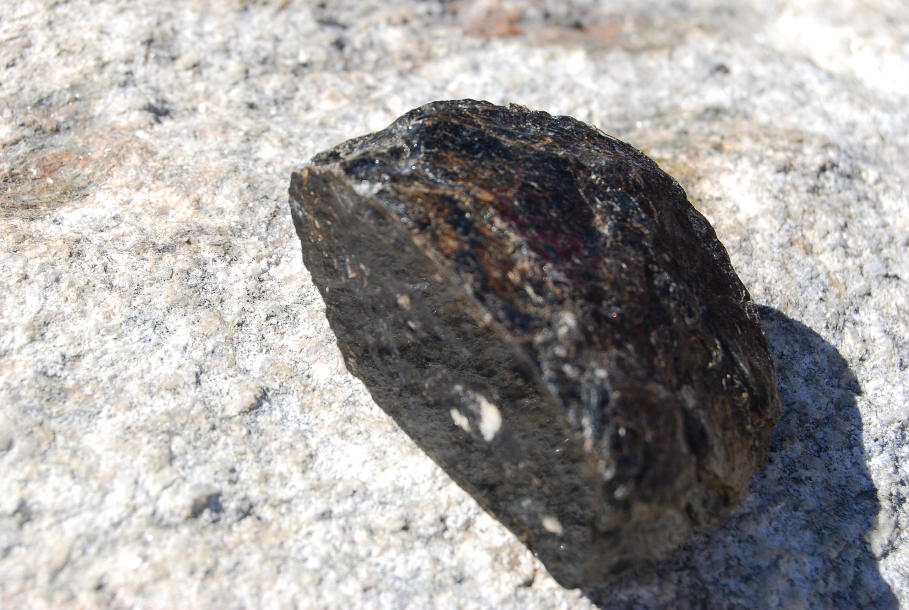 This file was uploaded for Wiki Loves Monuments in Portugal with the unique identifier 97008573.